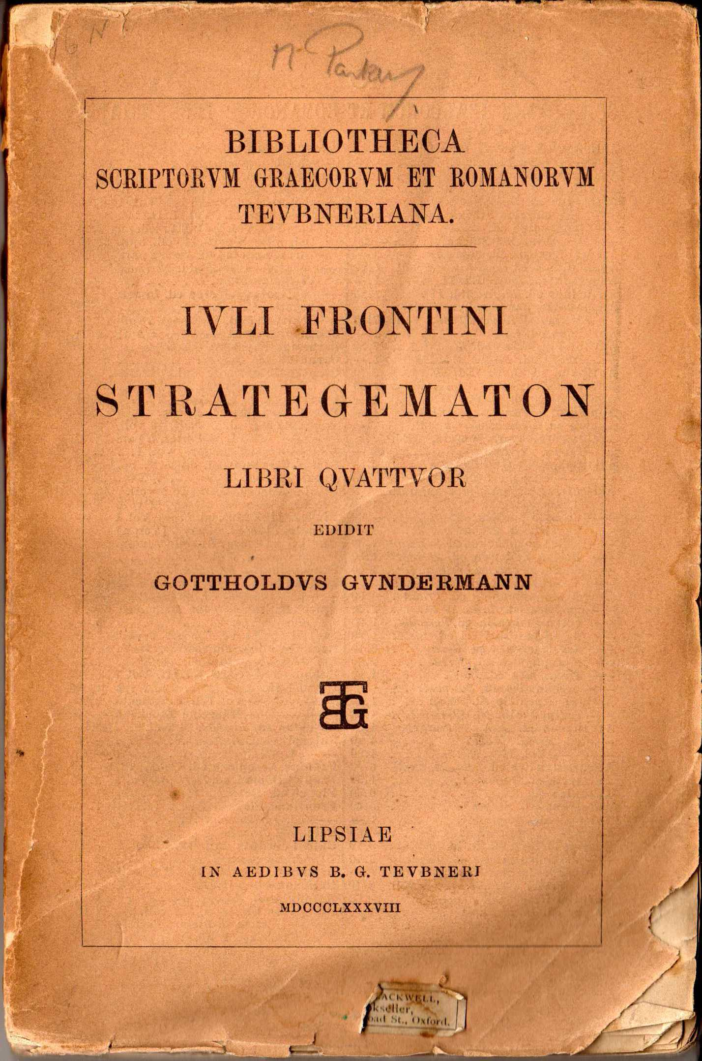 Book cover, Frontinus publ. Teubner